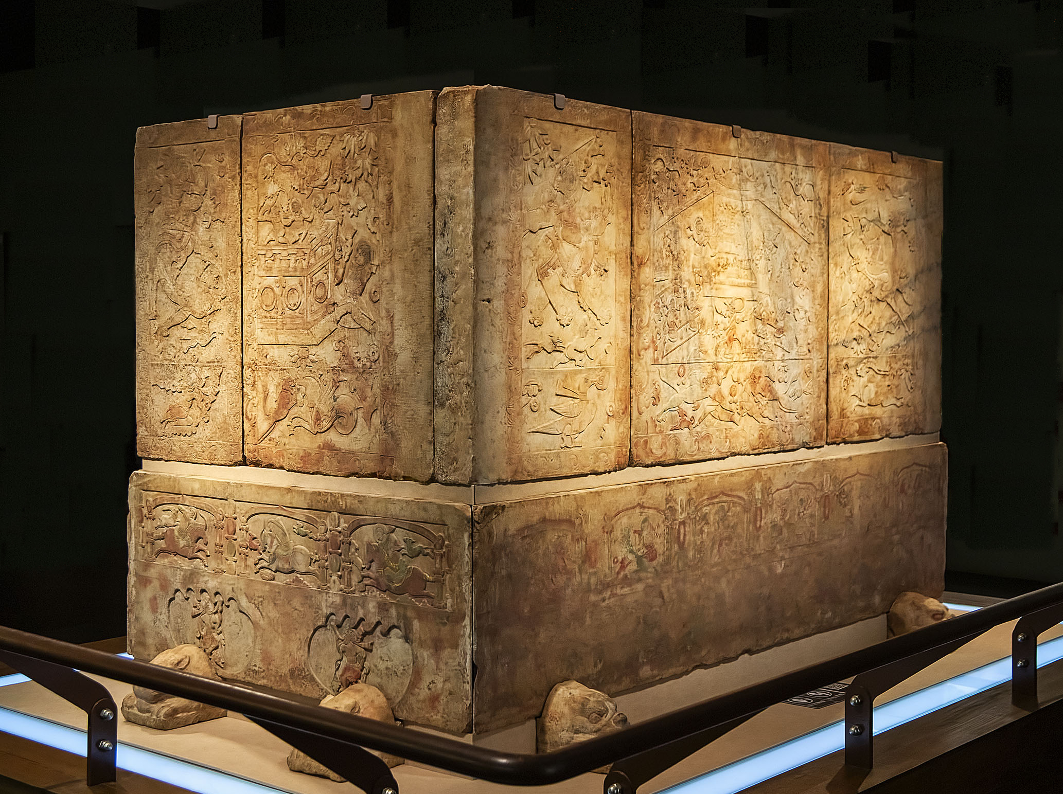 Yu Hong Tomb general view